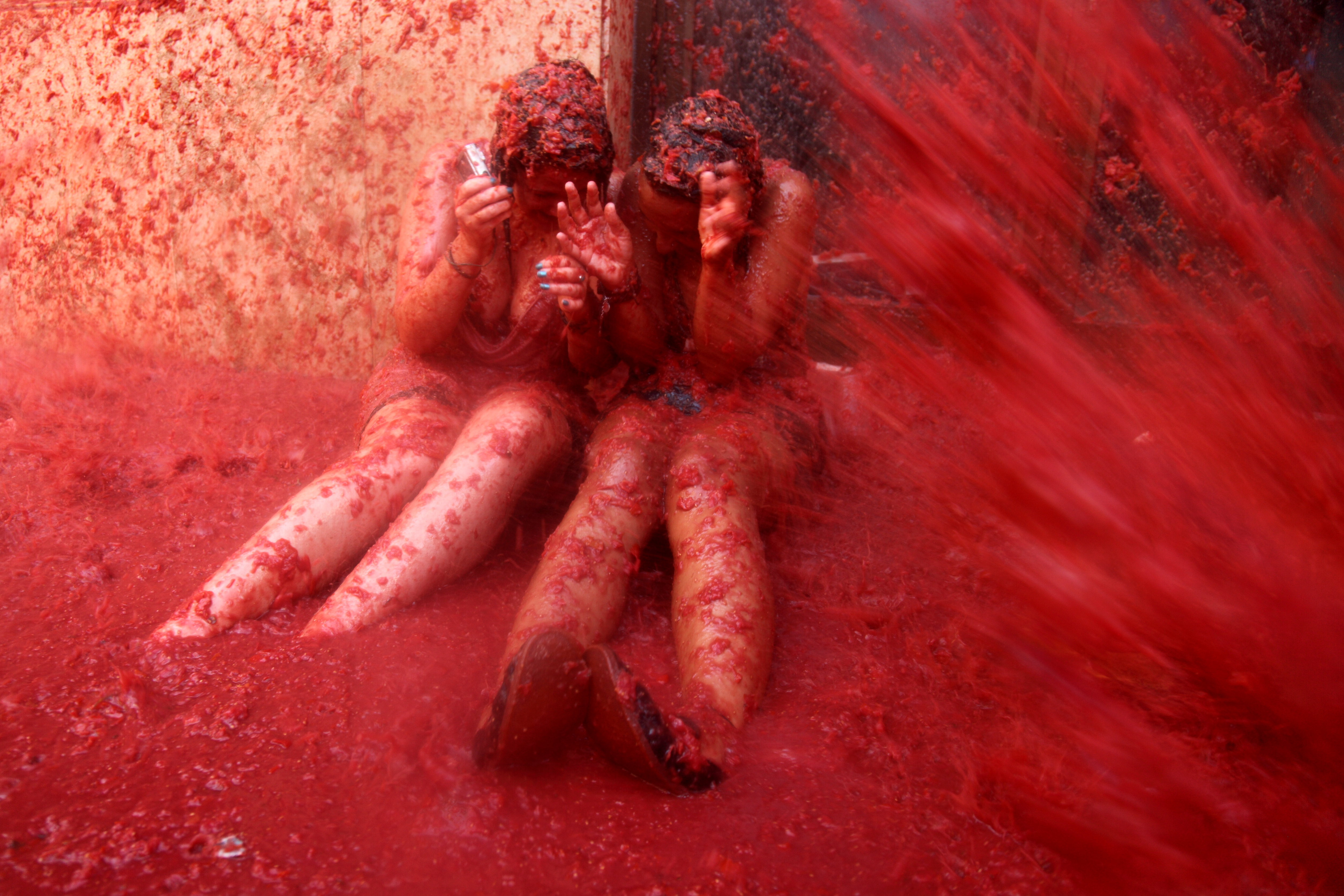 La Tomatina is a food fight festival held on the last Wednesday of August each year in the town of Buñol in the Valencia region of Spain. Tens of metric tons of over-ripe tomatoes are thrown in the streets in exactly one hour. Approximately 20,000–50,000 tourists come to find out more about the tomato fight, multiply by several times Buñol's normal population of slightly over 9,000. There is limited accommodation for people who come to La Tomatina, and thus many participants stay in Valencia and travel by bus or train to Buñol, about 38 km outside the city. In preparation for the dirty mess that will ensue, shopkeepers use huge plastic covers on their storefronts in order to protect them. They also use about 150,000 (kg) tomatoes, just about 90,000 pounds (